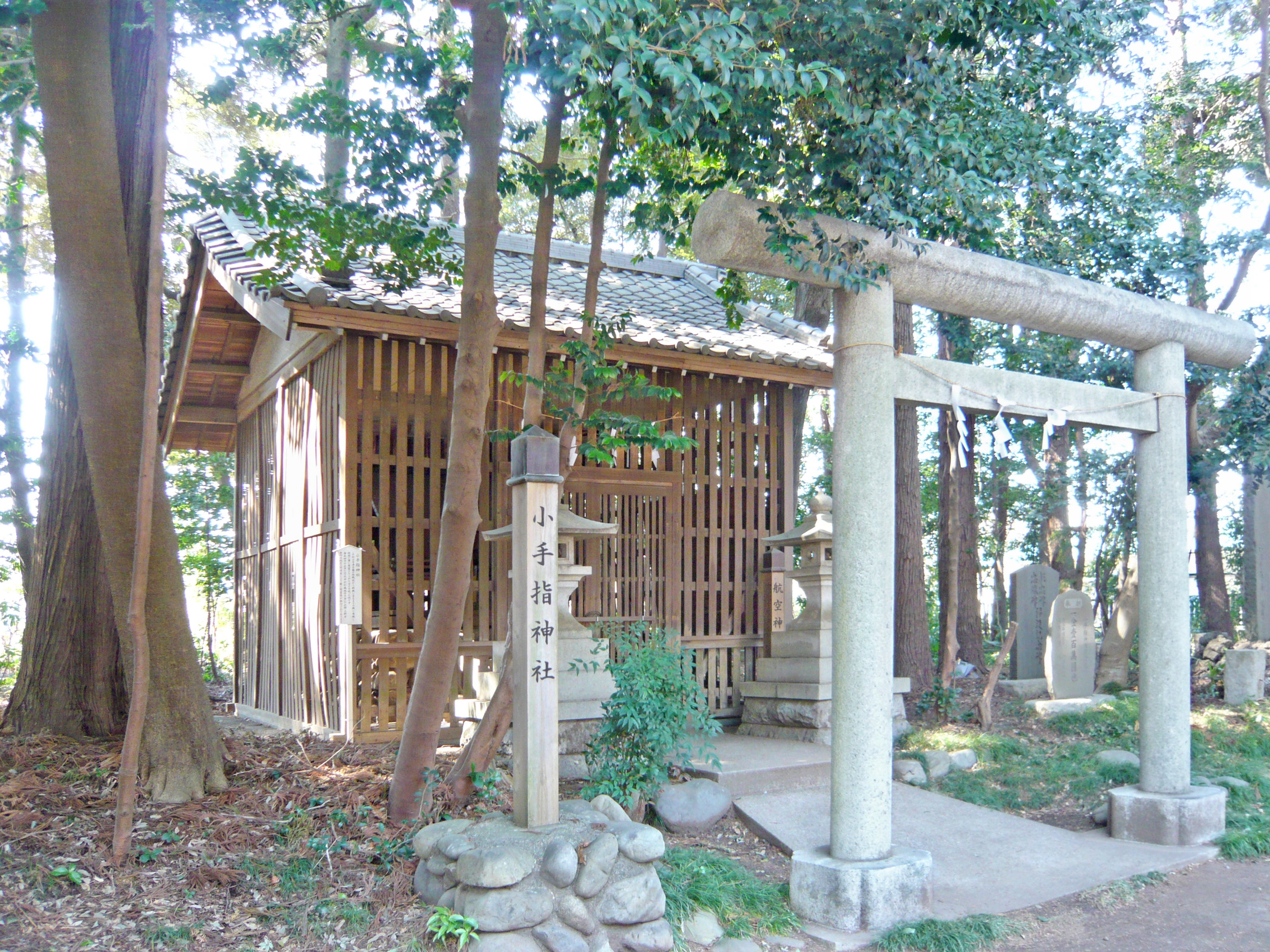 Kotesashi-jinja, in Kitano-Tenjin-sha, Tokorozawa